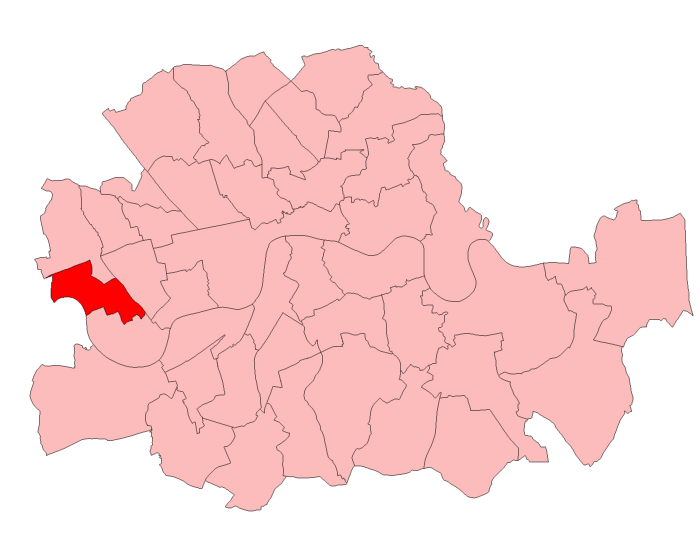 A map of Barons Court constituency within the London County Council area, as it existed from 1955 to 1974.